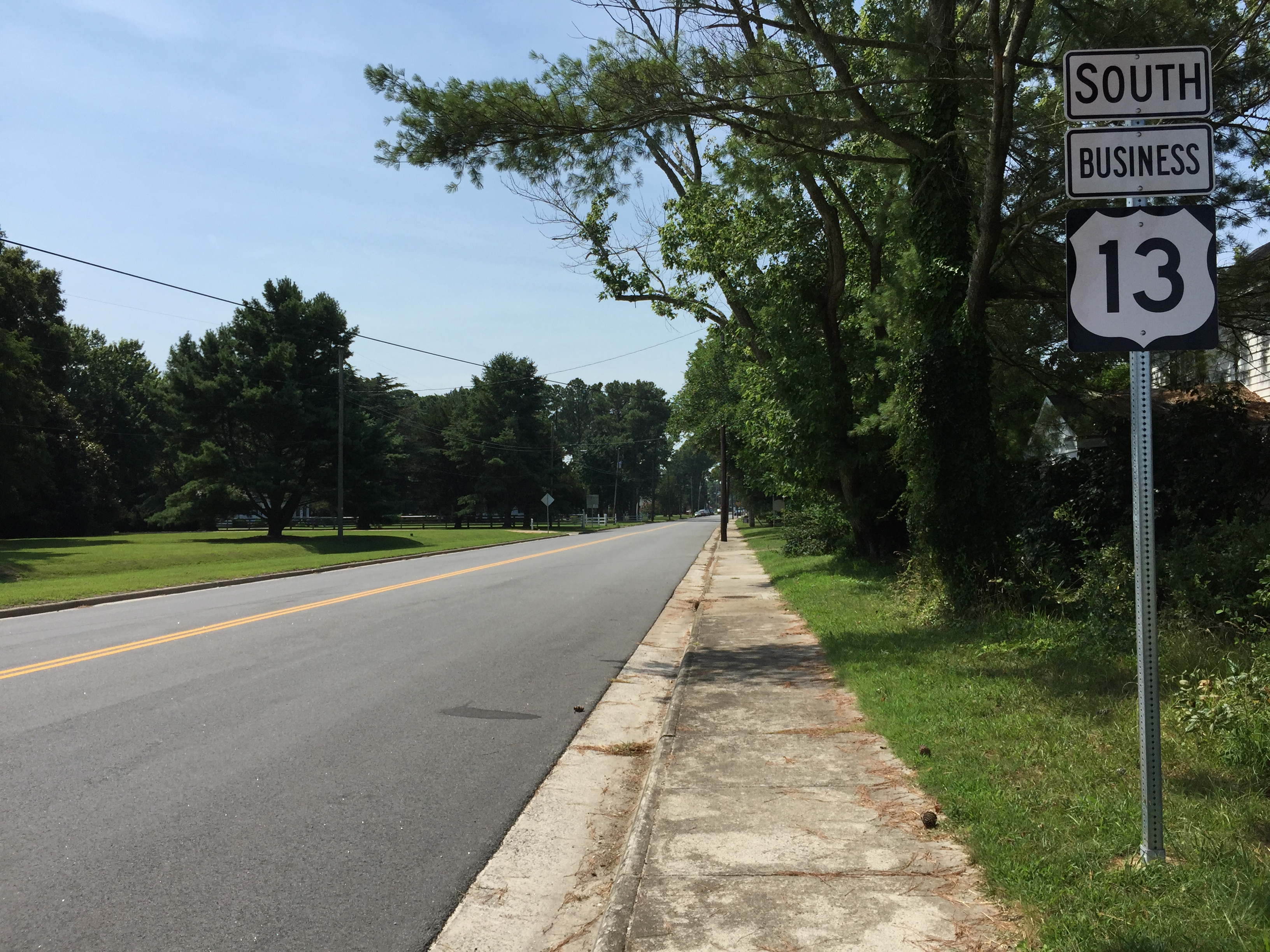 View south along U.S. Route 13 Business (Bayside Road) at U.S. Route 13 (Lankford Highway) in Cheriton, Northampton County, Virginia